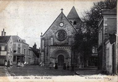 Place de L'Eglise, Clion, Indre France